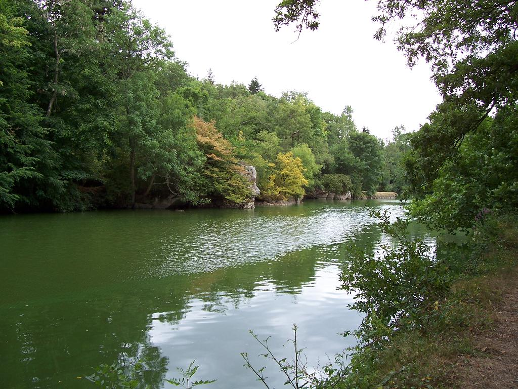 The Mayenne river and the Sainte-Apollonie Island (Entrammes community). Picture taken from the west bank.